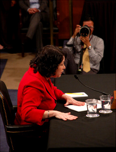 Sonia Sotomayor on the second day of confirmation hearings on July 13, 2009.